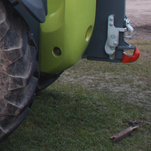 A pickup hitch (red coupling) at the rear side of a Claas Scorpion 7040 Plus Varipower telescopic handler at the LAMMA show (Lincolnshire Agricultural Machinery Manufacturers Association Show) in 2009, England